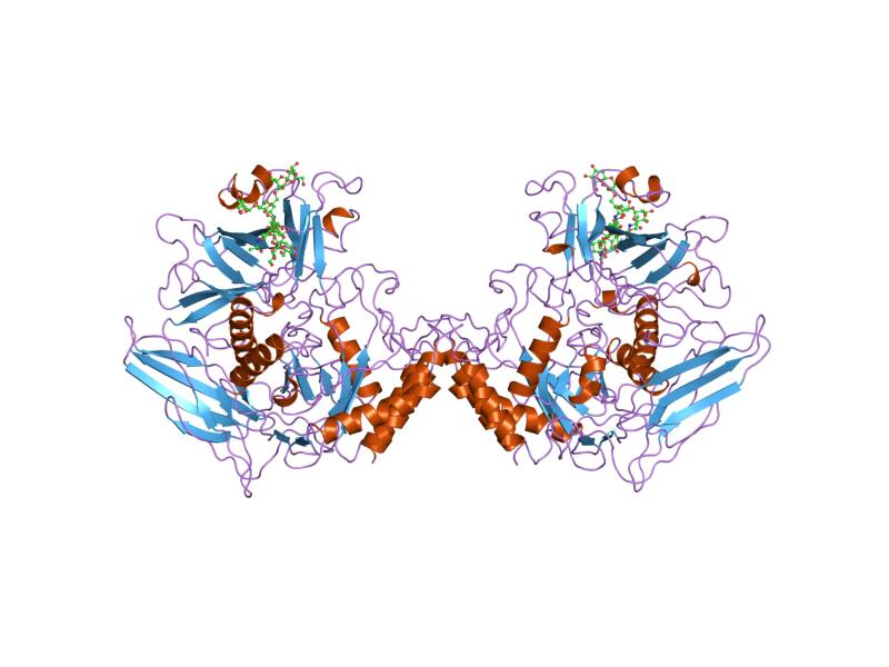 Cartoon representation of the molecular structure of protein registered with 1bhg code.